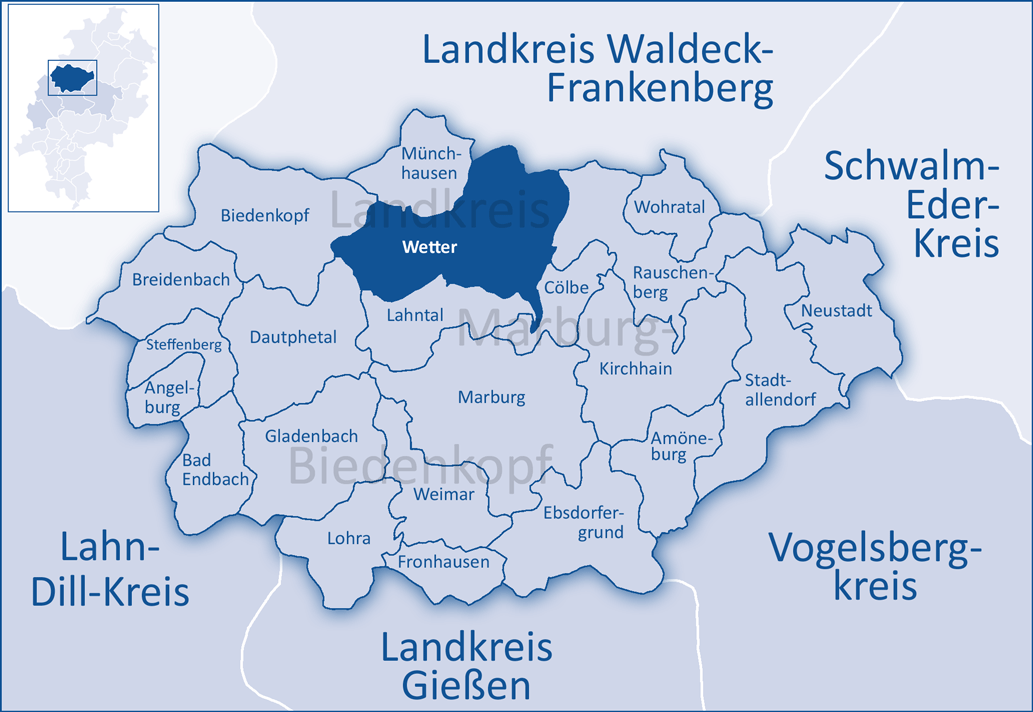 The map shows a district in the area of Marburg-Biedenkopf